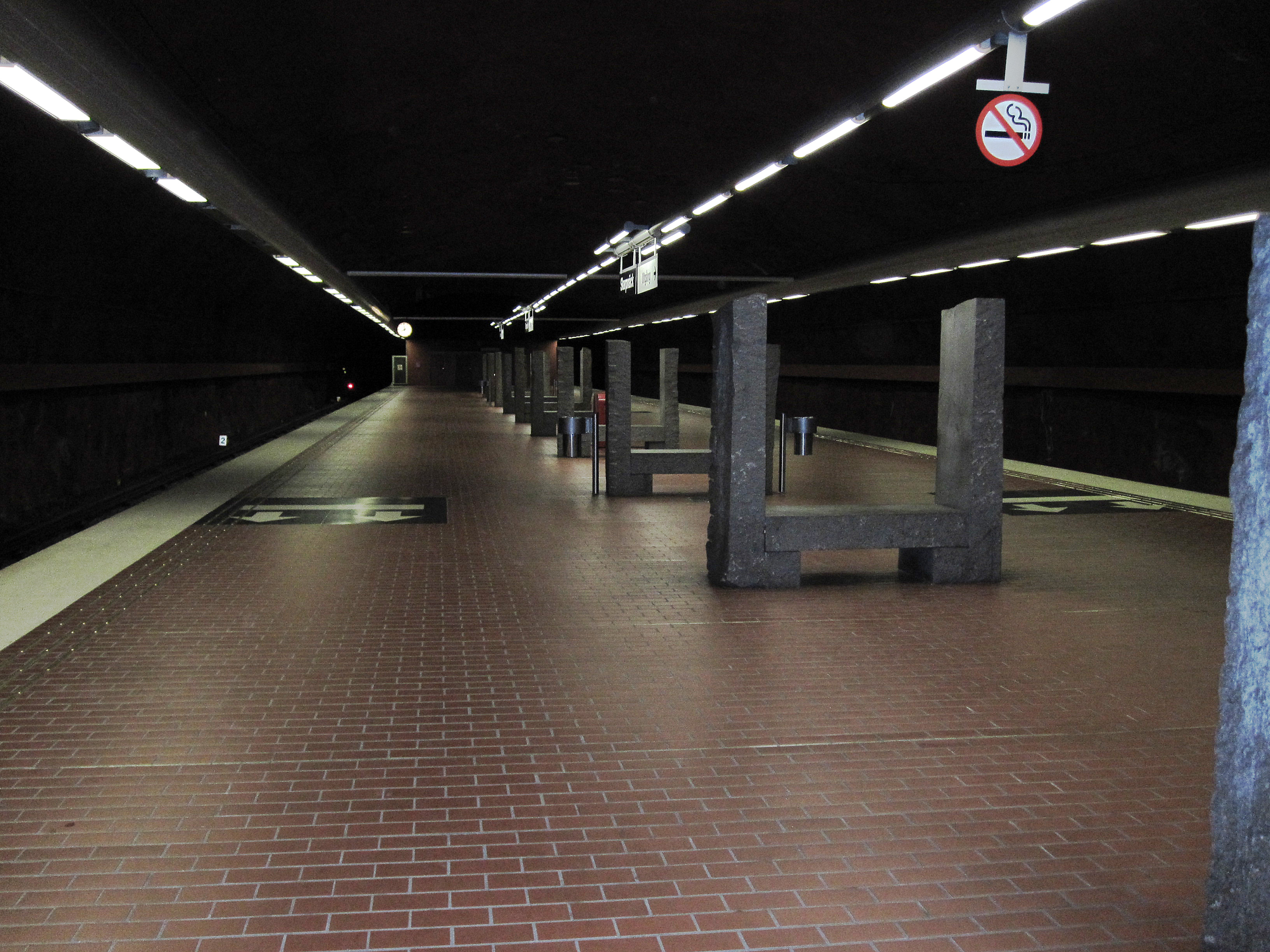 Interior of the metro/tube station i Stockholm, "Skarpnäck", final station on line 17. Sweden with sculptures by Richard Nonas.